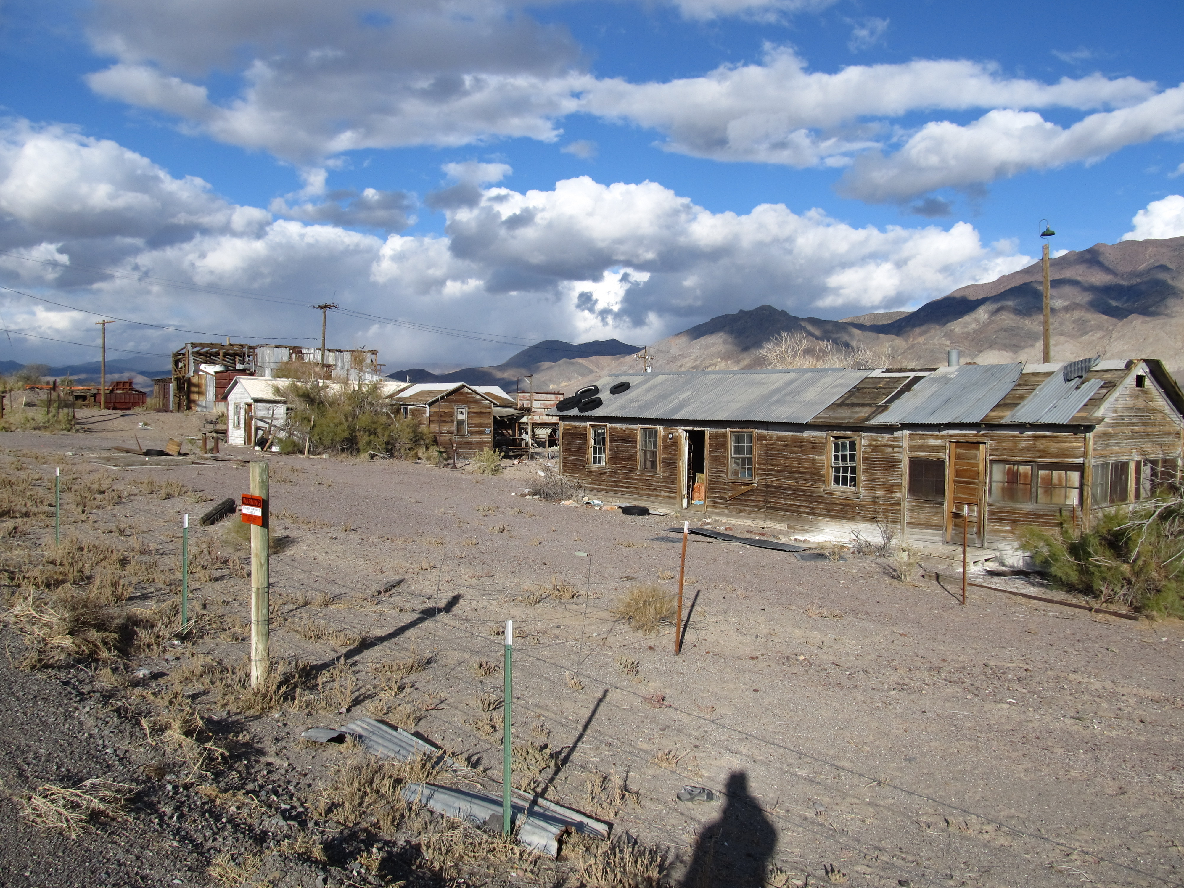 Abandoned buildings in Sodaville ghost town. 4 miles south of Mina, Mineral County, Nevada.